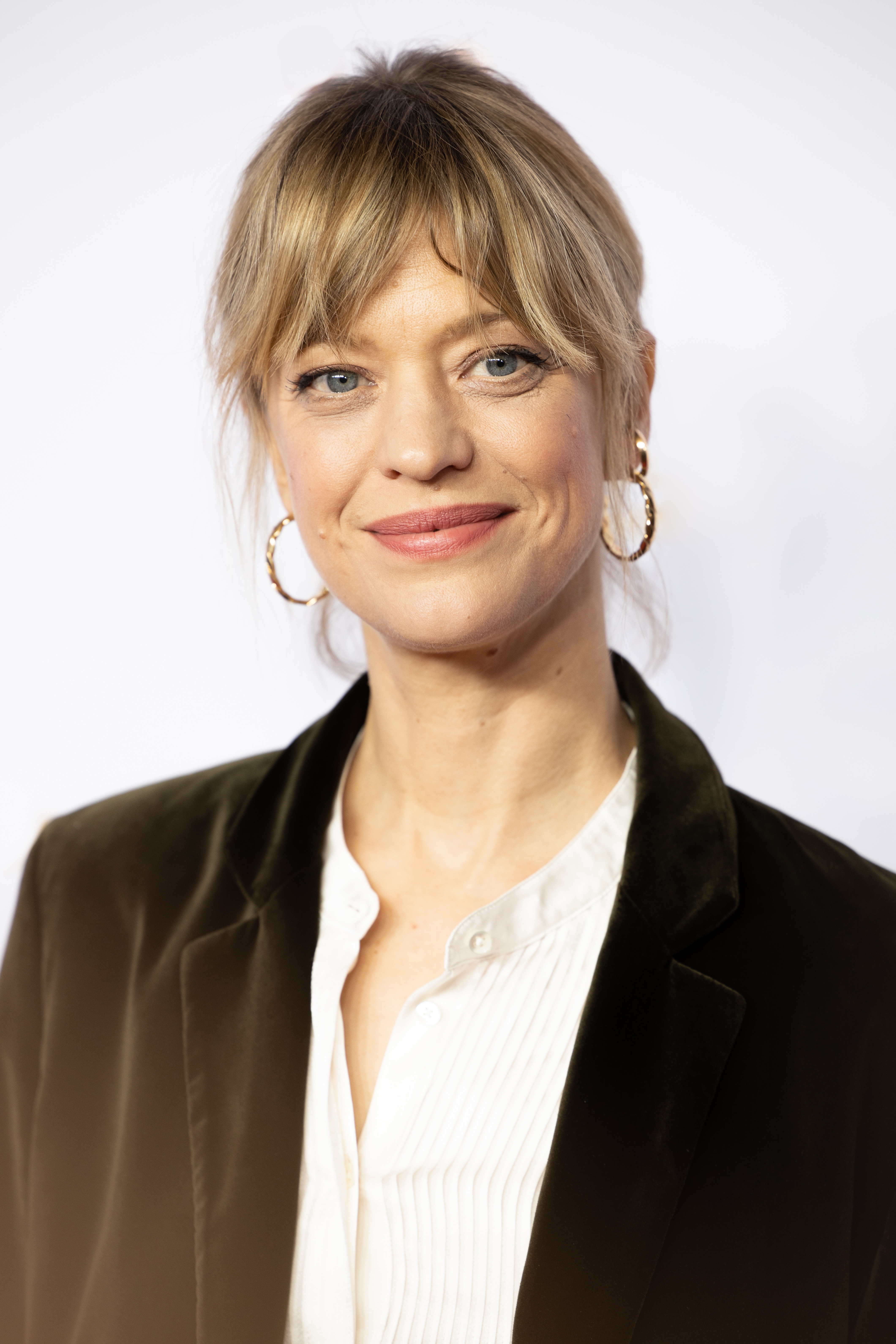 Heike Makatsch at the Berlinale reception of the North Rhine-Westphalian state representation in Berlin, 2020